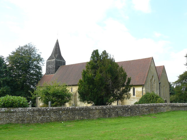 Church at Abinger Common One of the more isolated Churches in this part of Surrey.